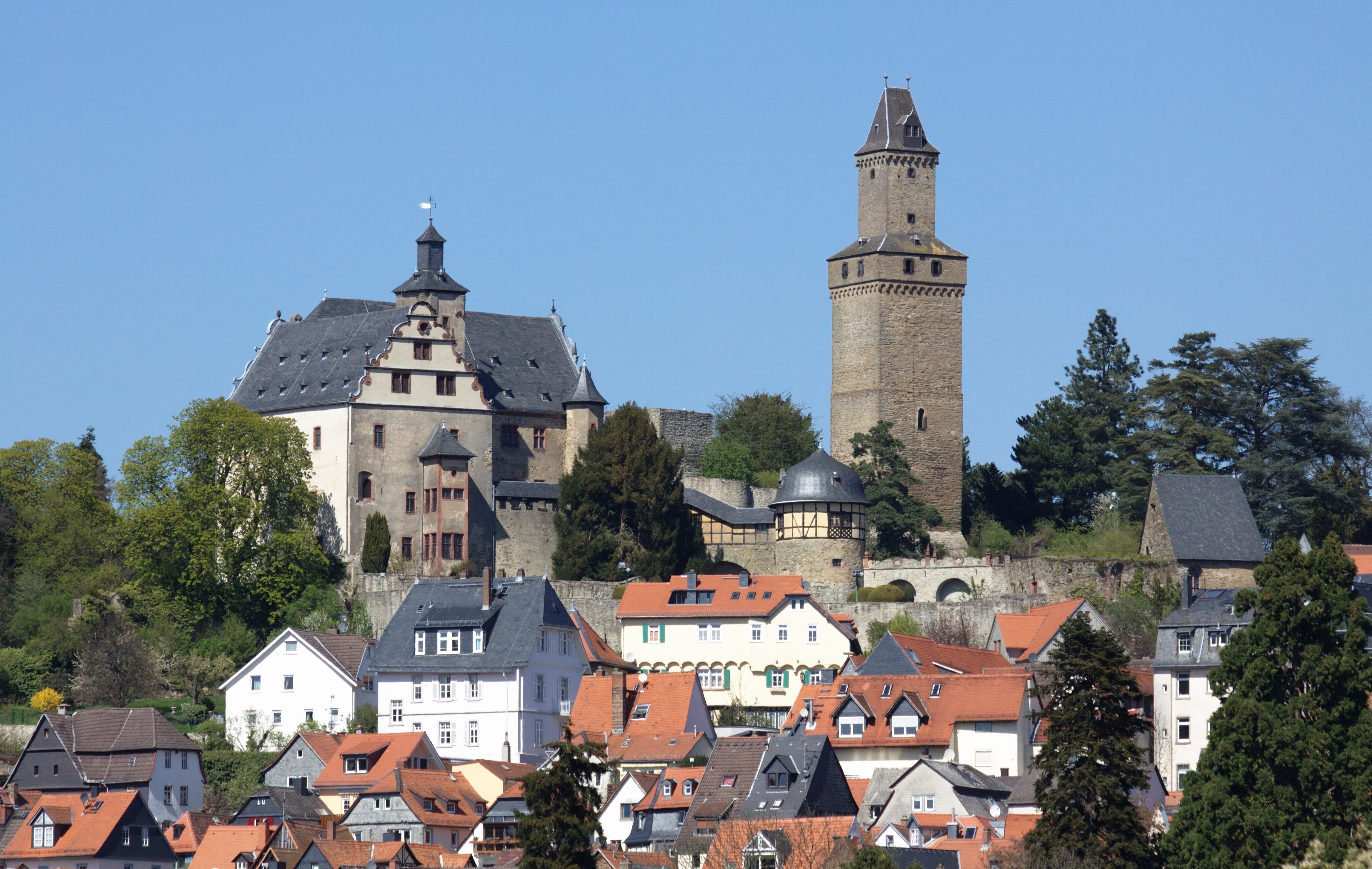 Kronberg castle, Taunus, Germany. View from southern direction.